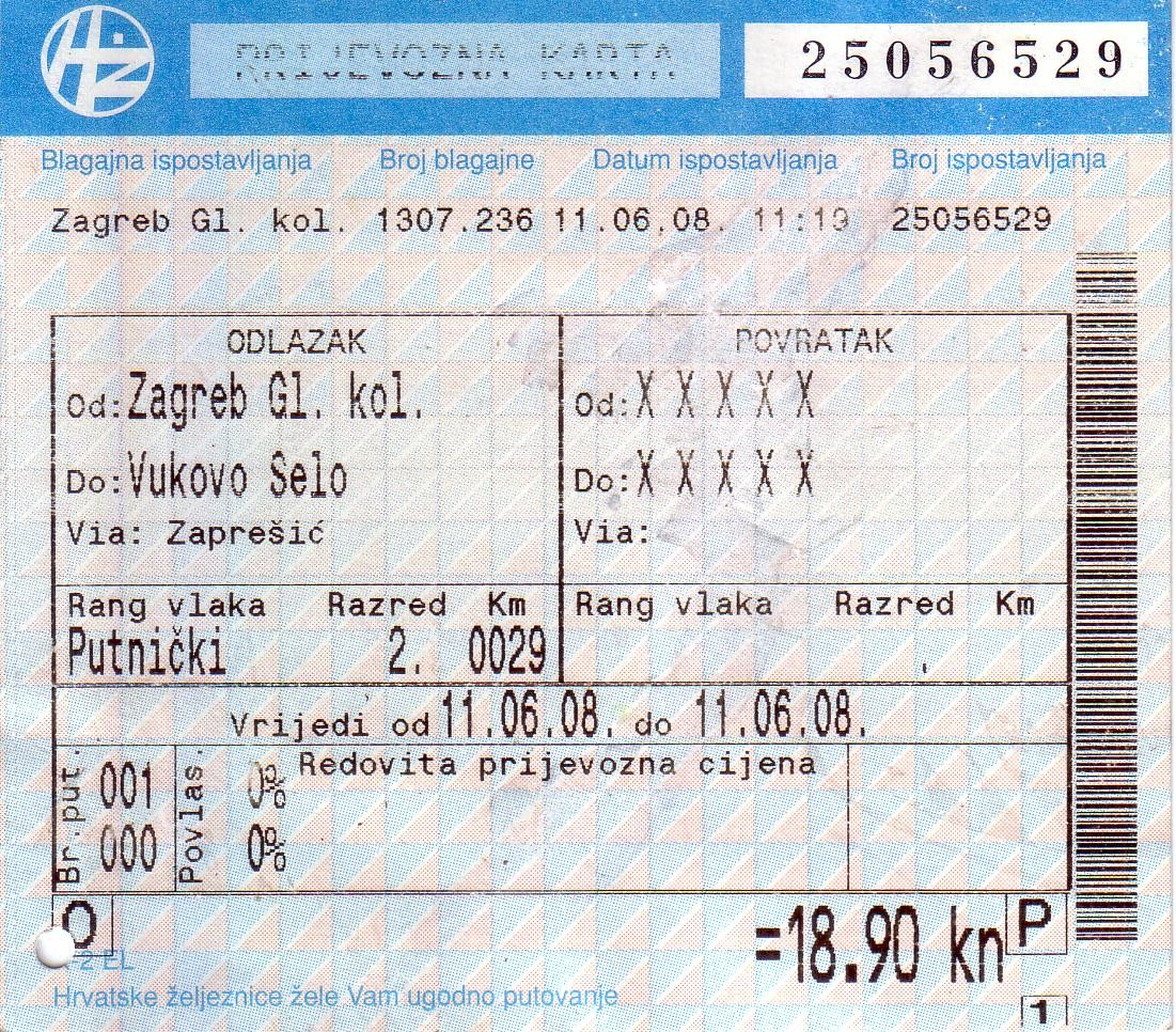 Croatian Railways (HŽ) Train Ticket